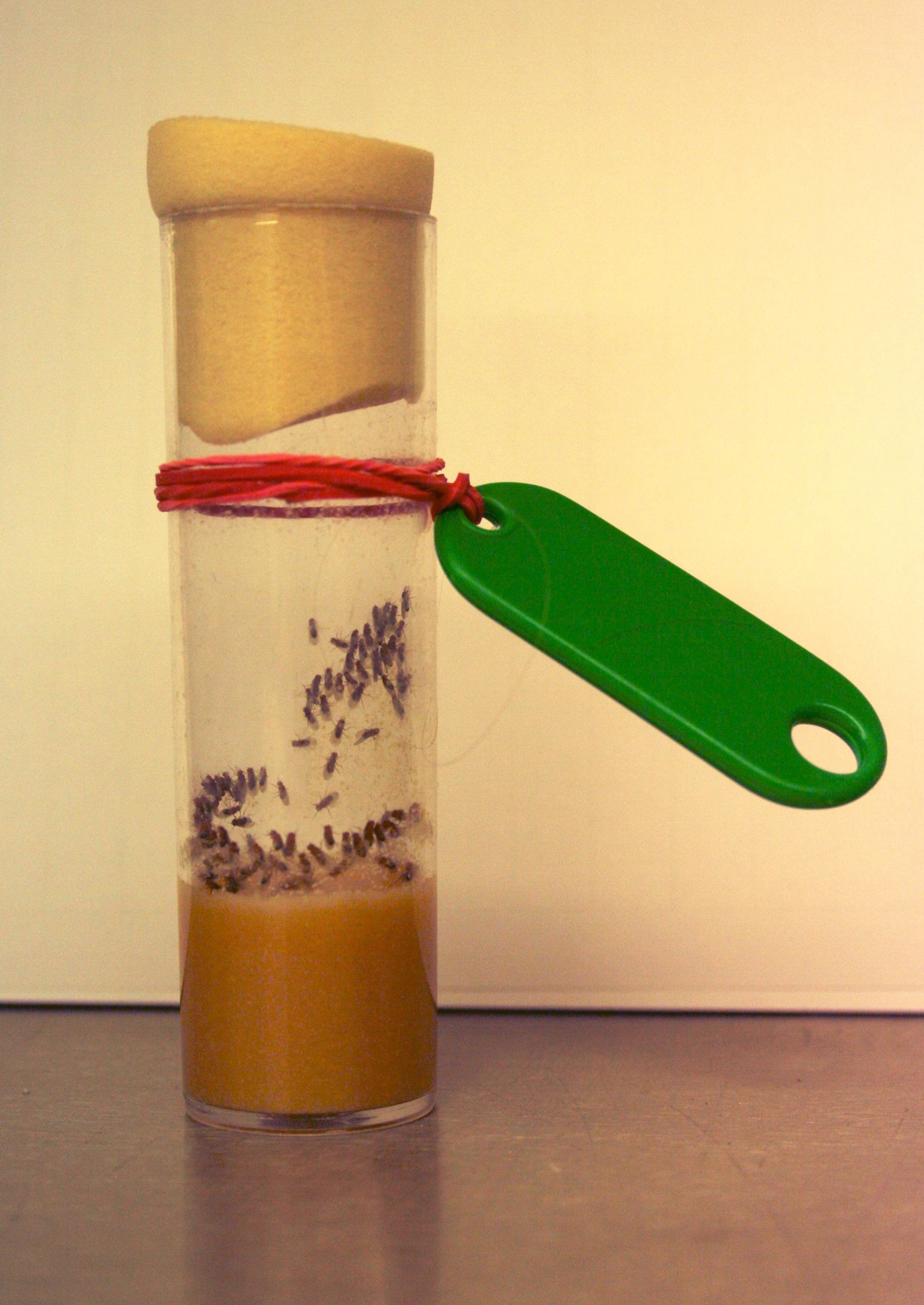 Laboratory culture of Drosophila melanogaster